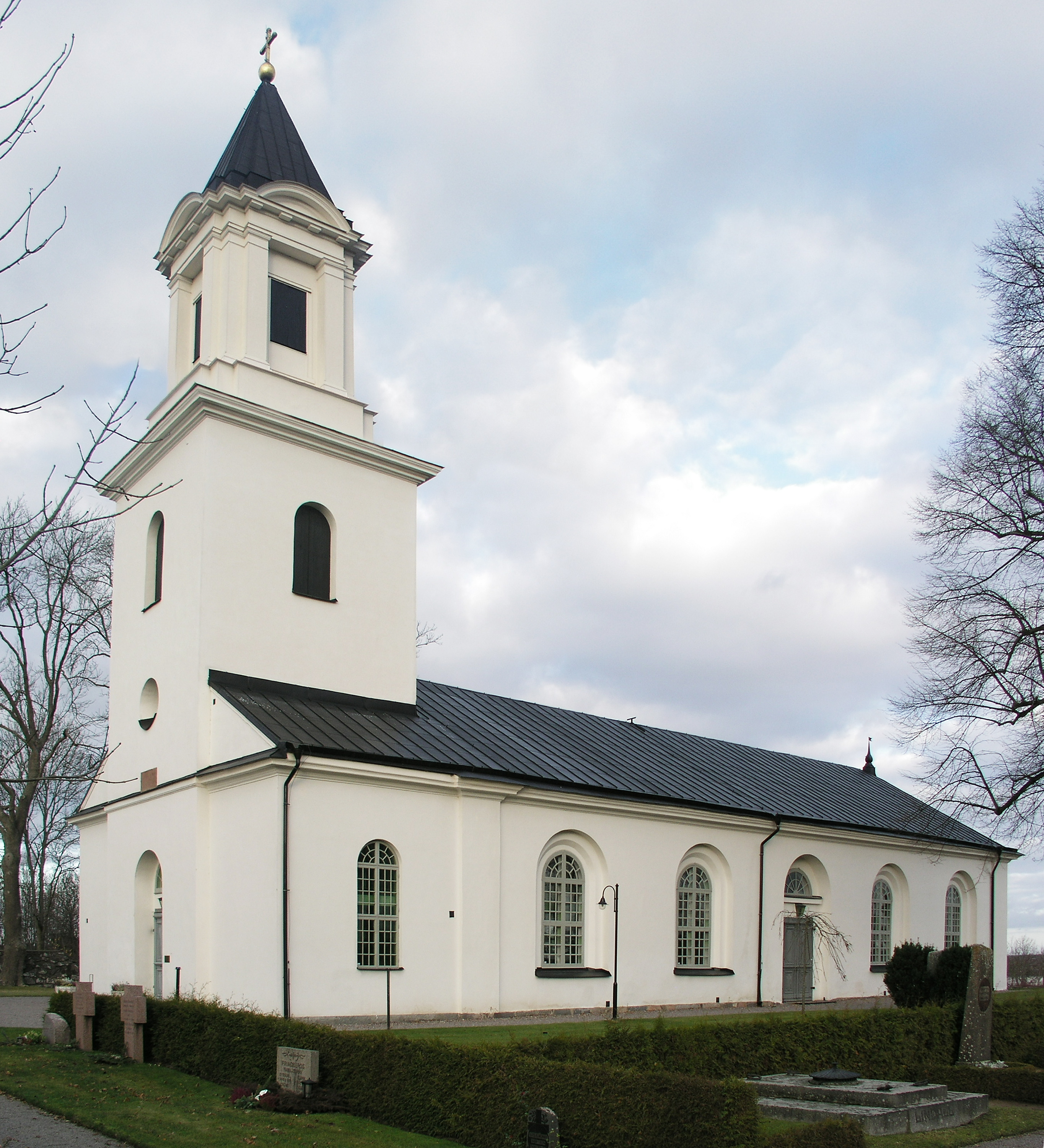 Borgs kyrka / Borg church, Diocese of Linköping, Norrköpings kommun. The picture was taken by Håkan Svensson (Xauxa) the 13th of November 2005.